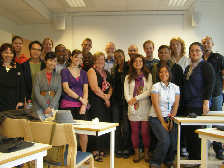 DILL Group 4 students